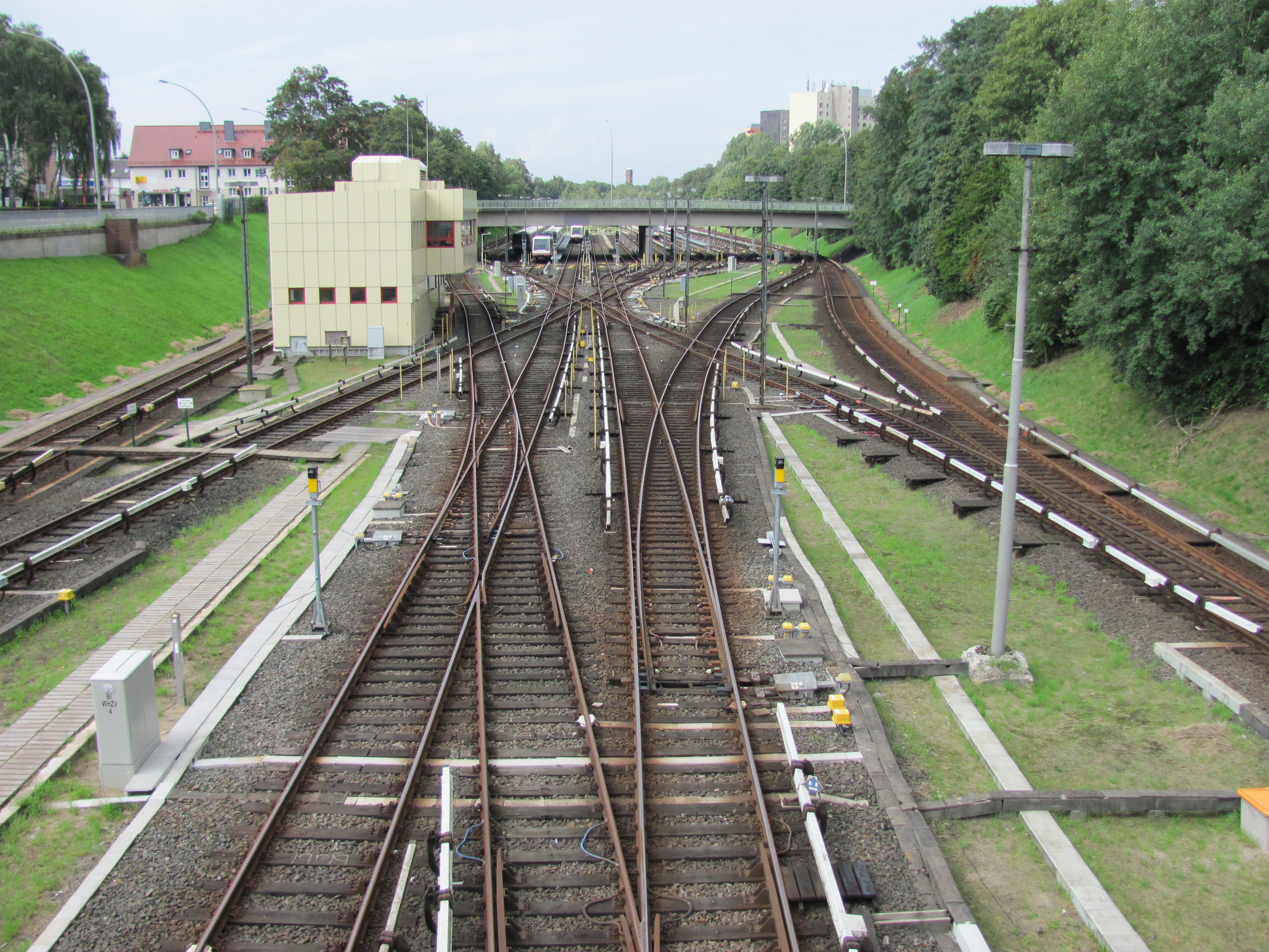 U-Bahn station Billstedt in Hamburg, Germany